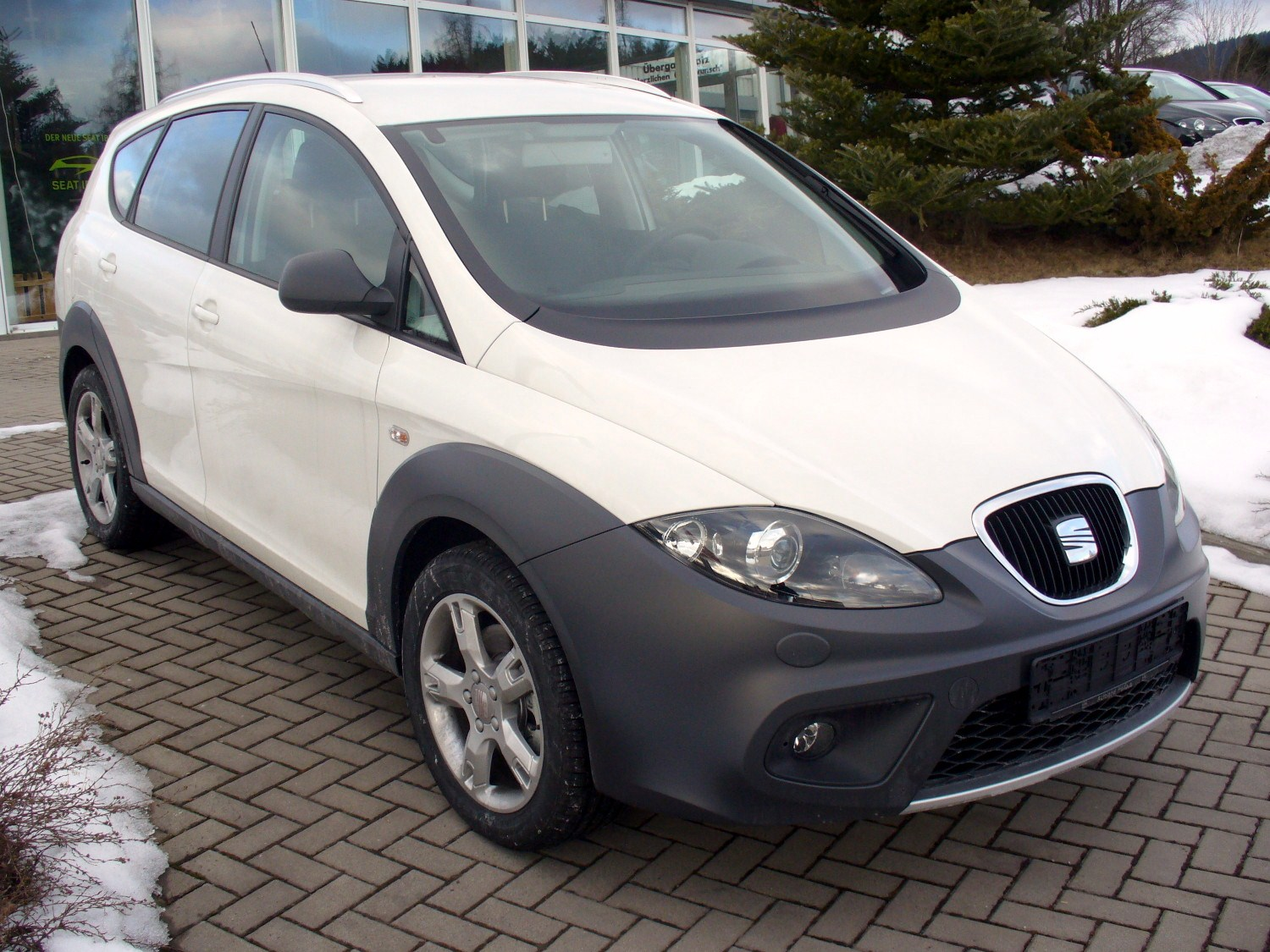 Seat Altea Freetrack